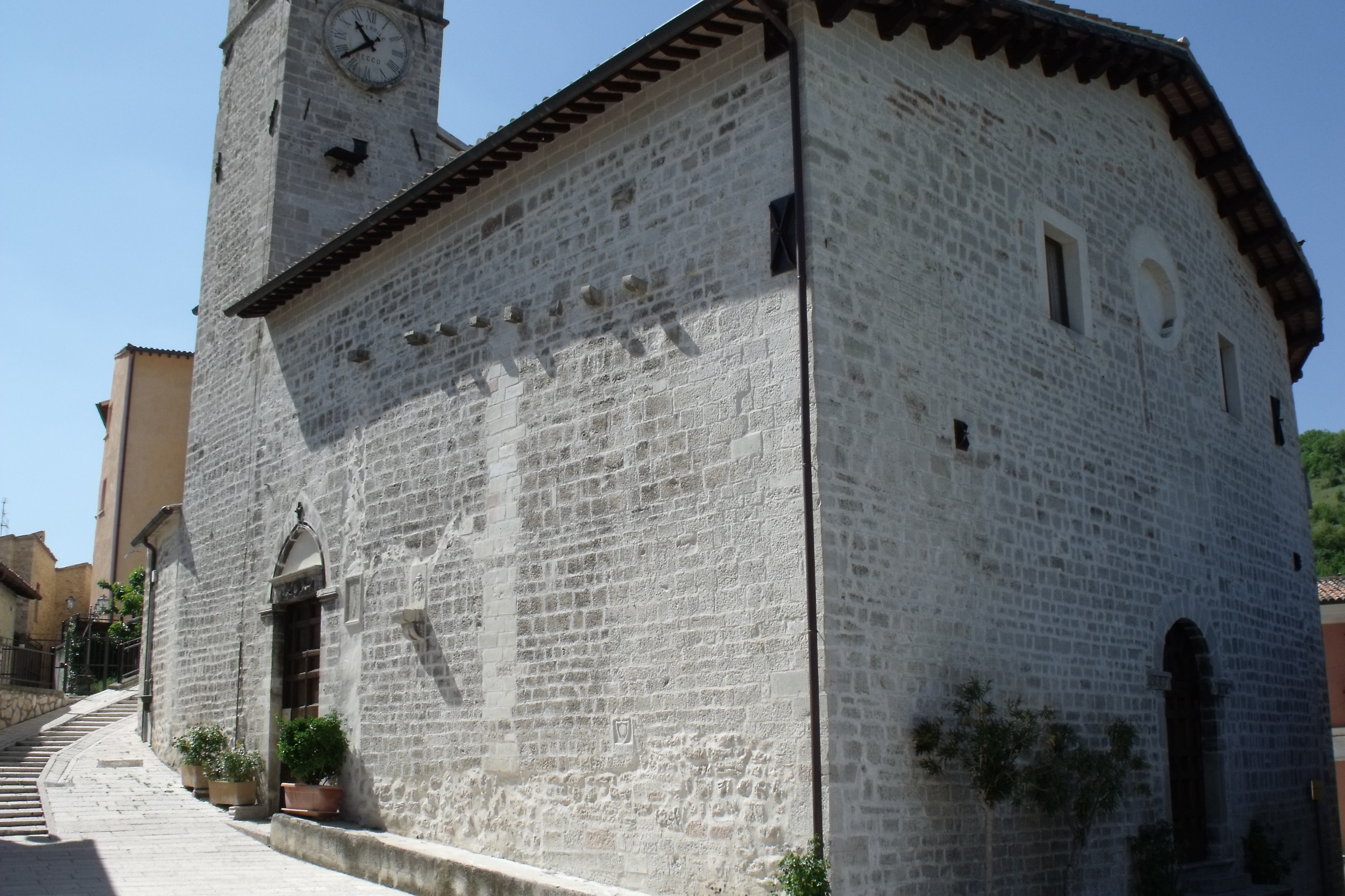 Church of Santa Maria in Pieta in Preci, Province of Perugia, Umbria, Italy